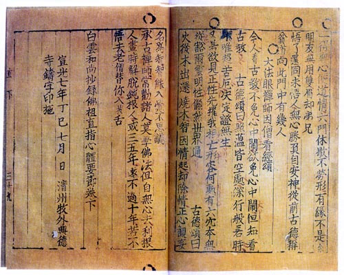 Jikji or "Selected Teachings of Buddhist Sages and Seon Masters", published in 1377, Korea during the Goryeo Dynasty. It is the earliest known book printed with movable metal type.